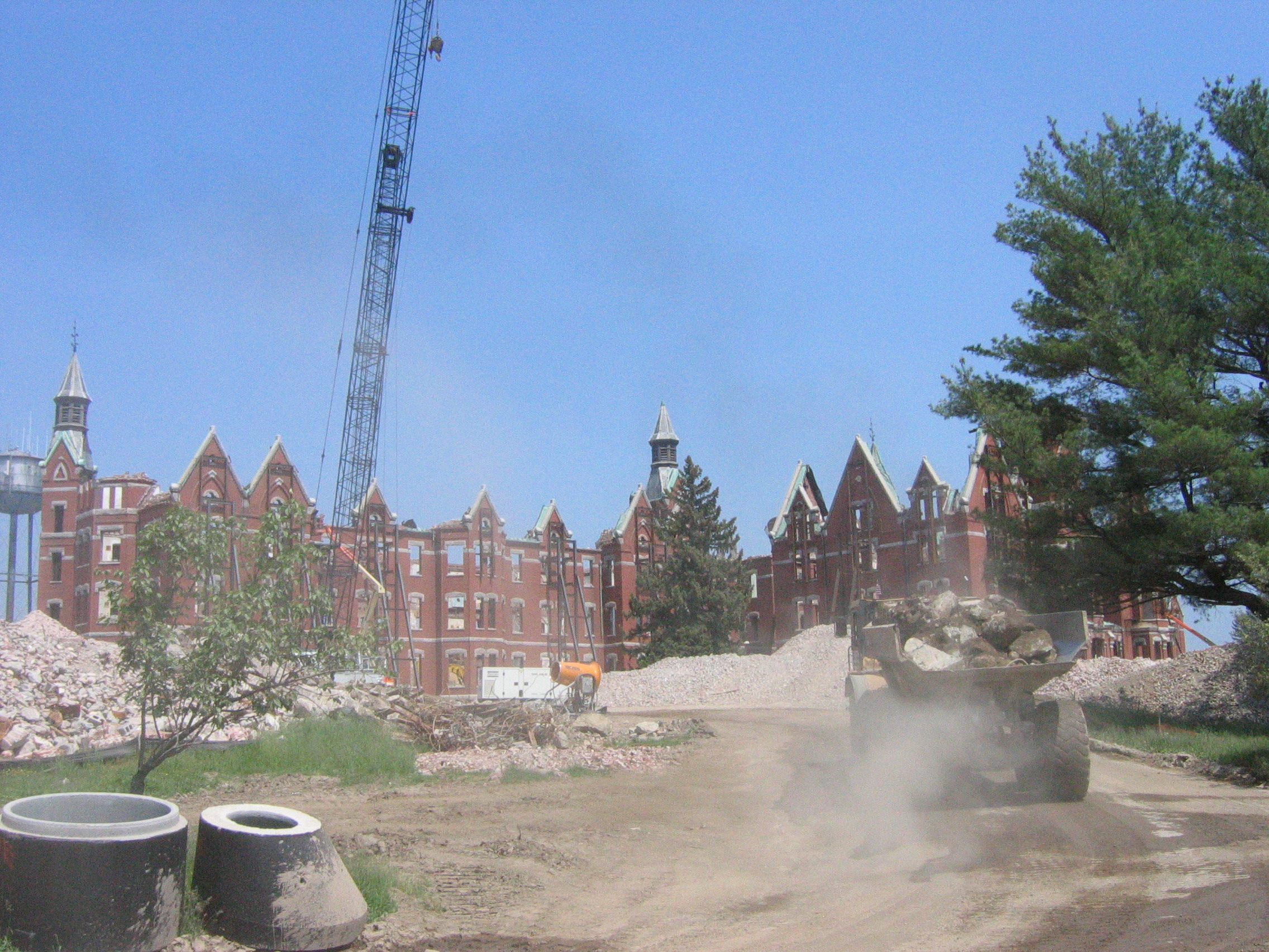 Photo by Devlin Mannle. Danvers State Hospital demolition.